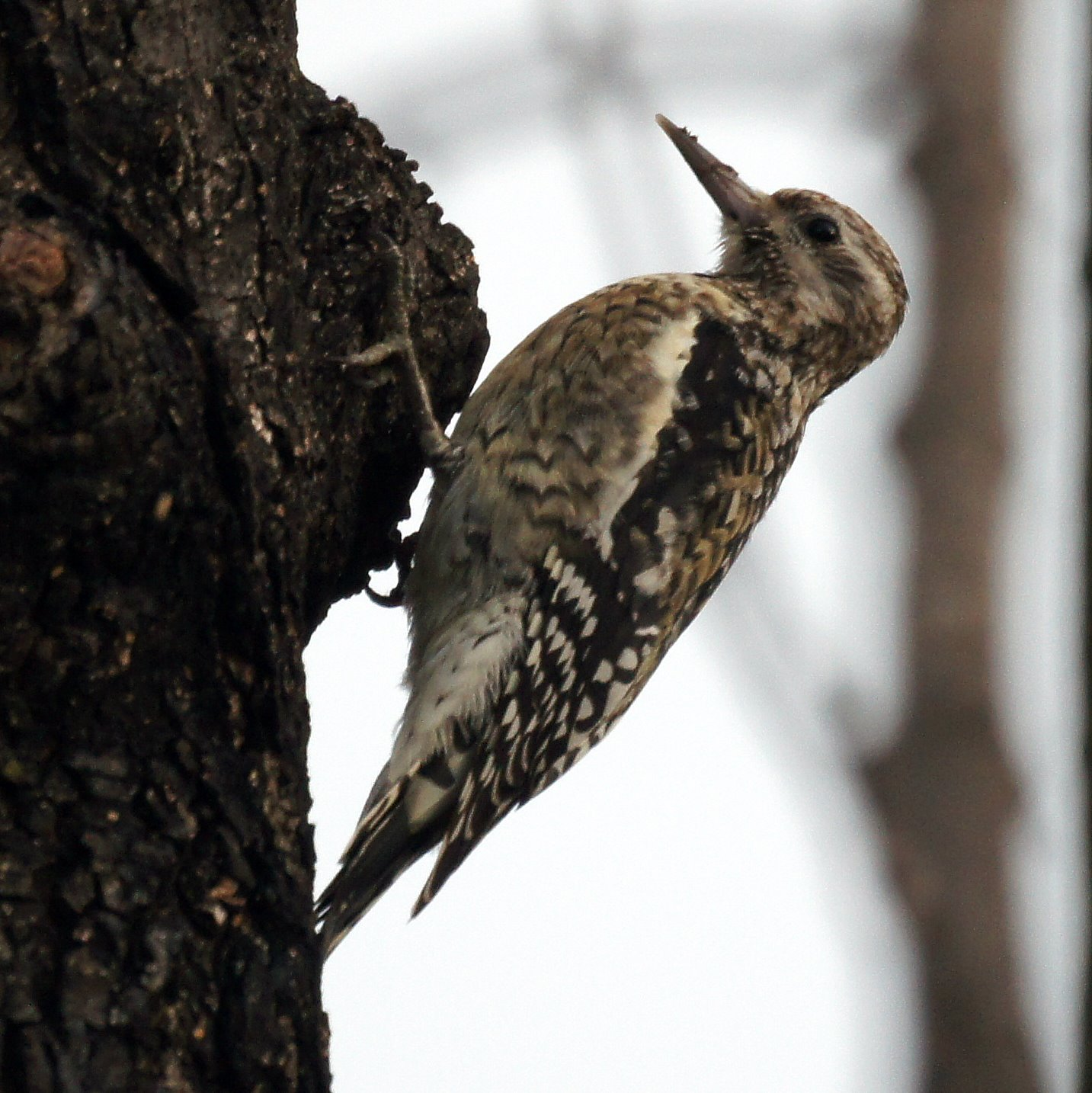 Yellow Bellied Sapsucker